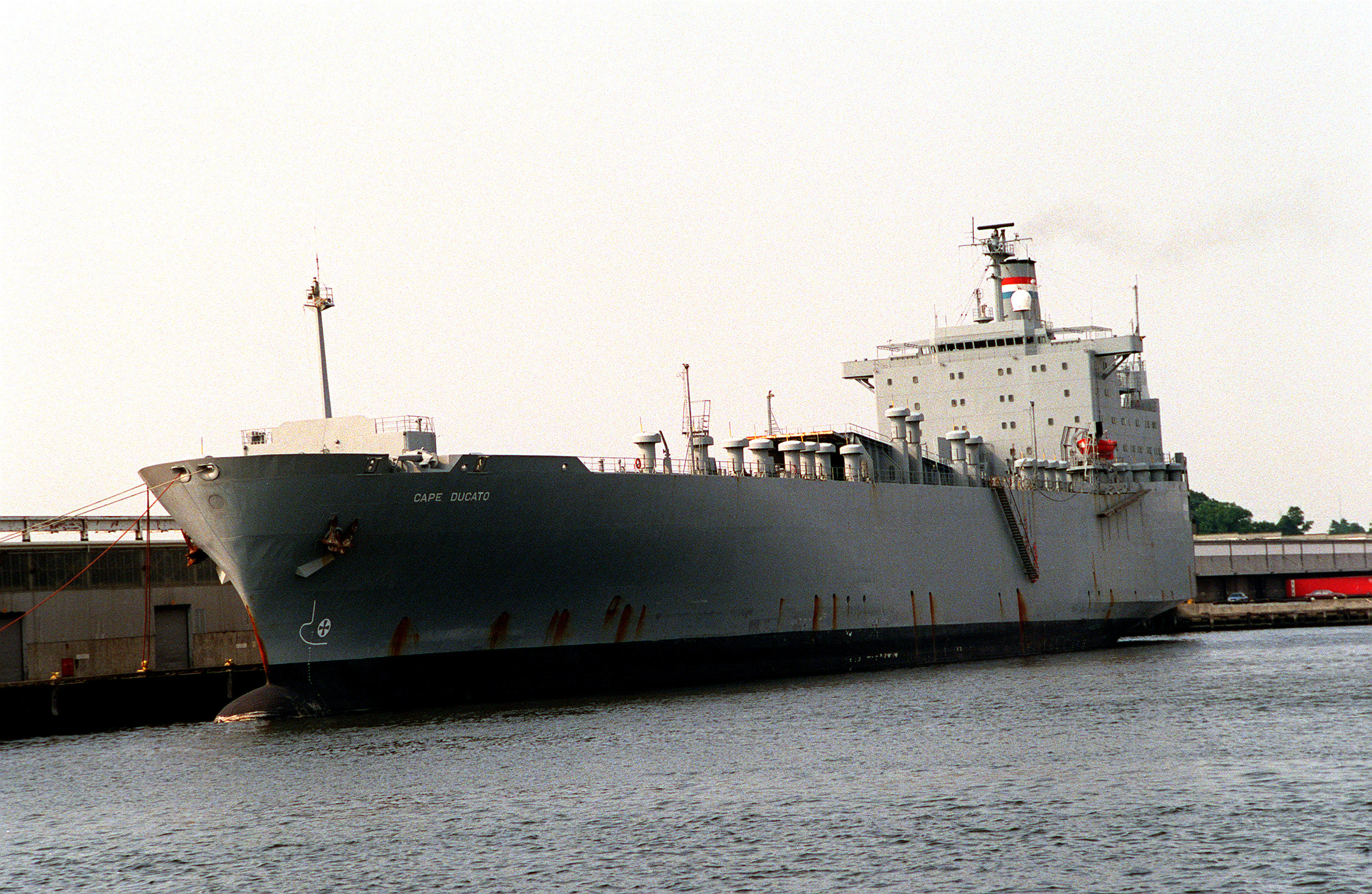 A port bow view of the Military Sealift Command chartered freighter CAPE DUCATO (T-AKR-5051) tied up at the Norfolk and Western Railroad's Lambert Point Pier. The vessel has returned to Norfolk with a load of equipment from the Persian Gulf area, where it was deployed during Operation Desert Storm. DN-SC-92-01230